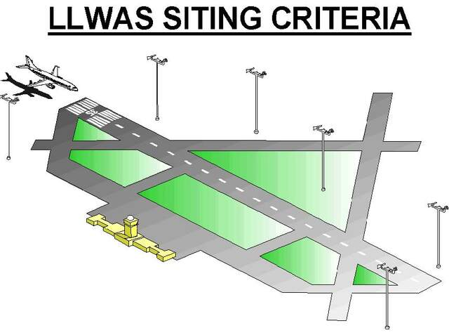 Siting of anemometers along a runway for detection of low level wind shears such as microbursts or turbulent crosswinds.